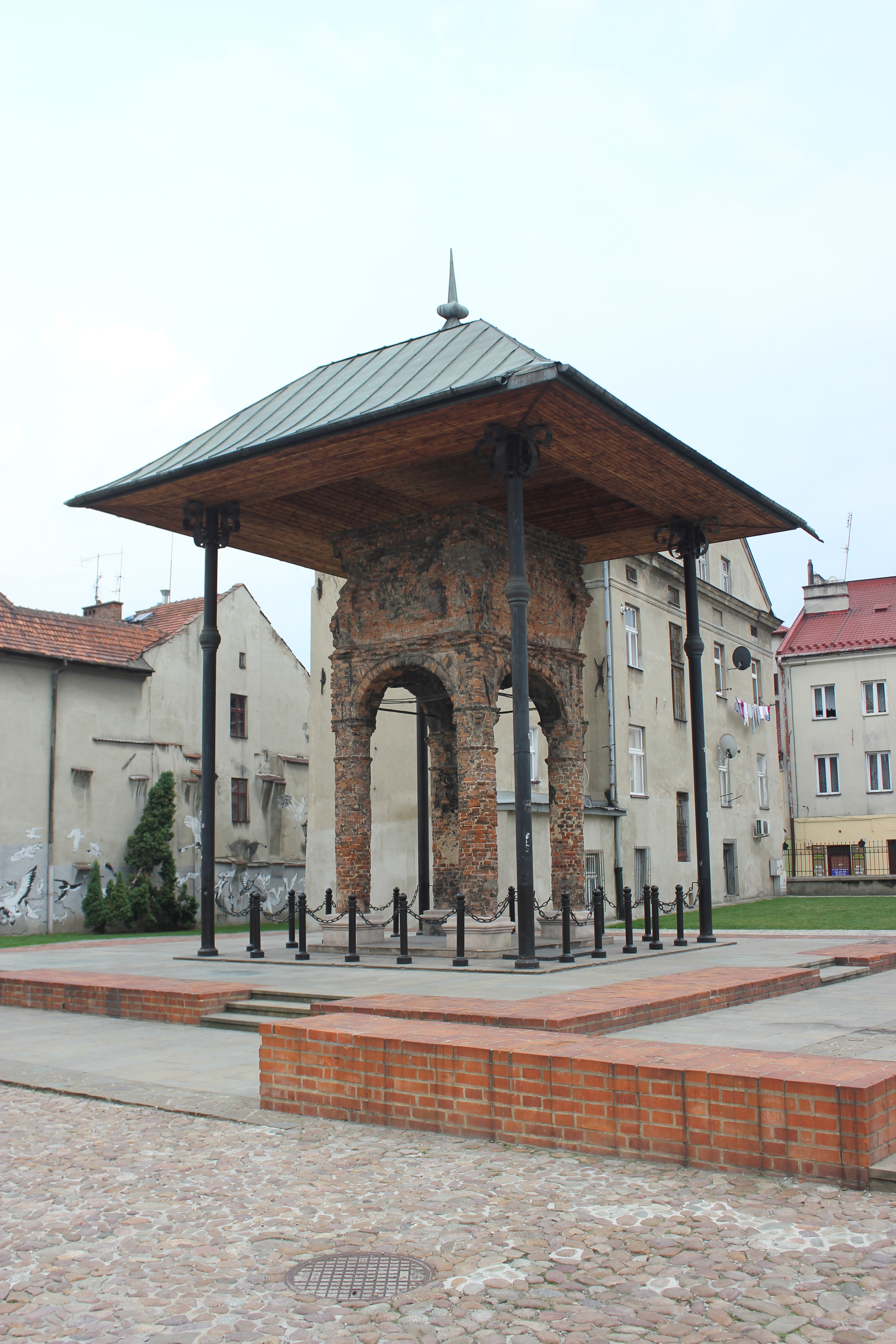 Tarnów - bimah